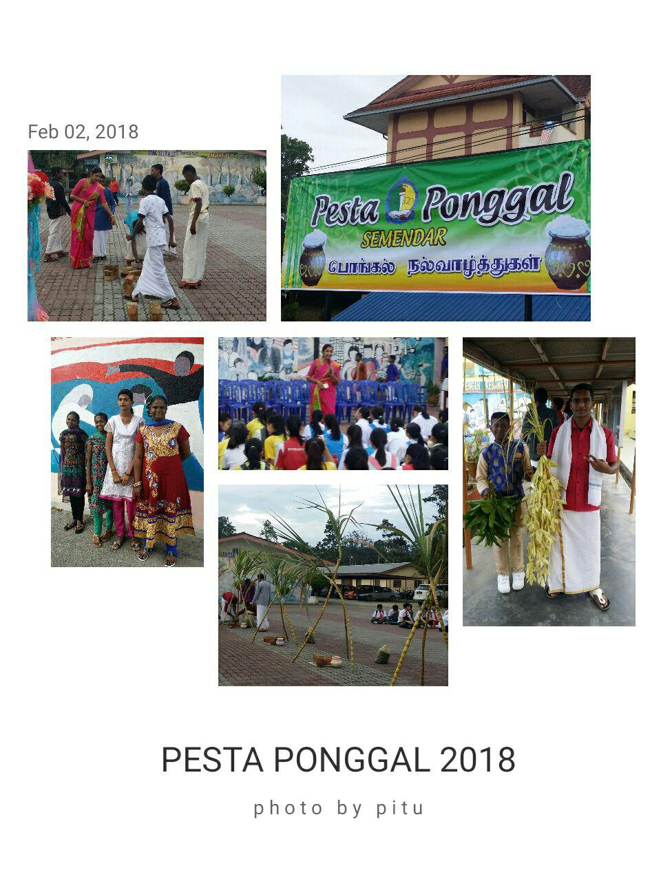 PONGGAL 1